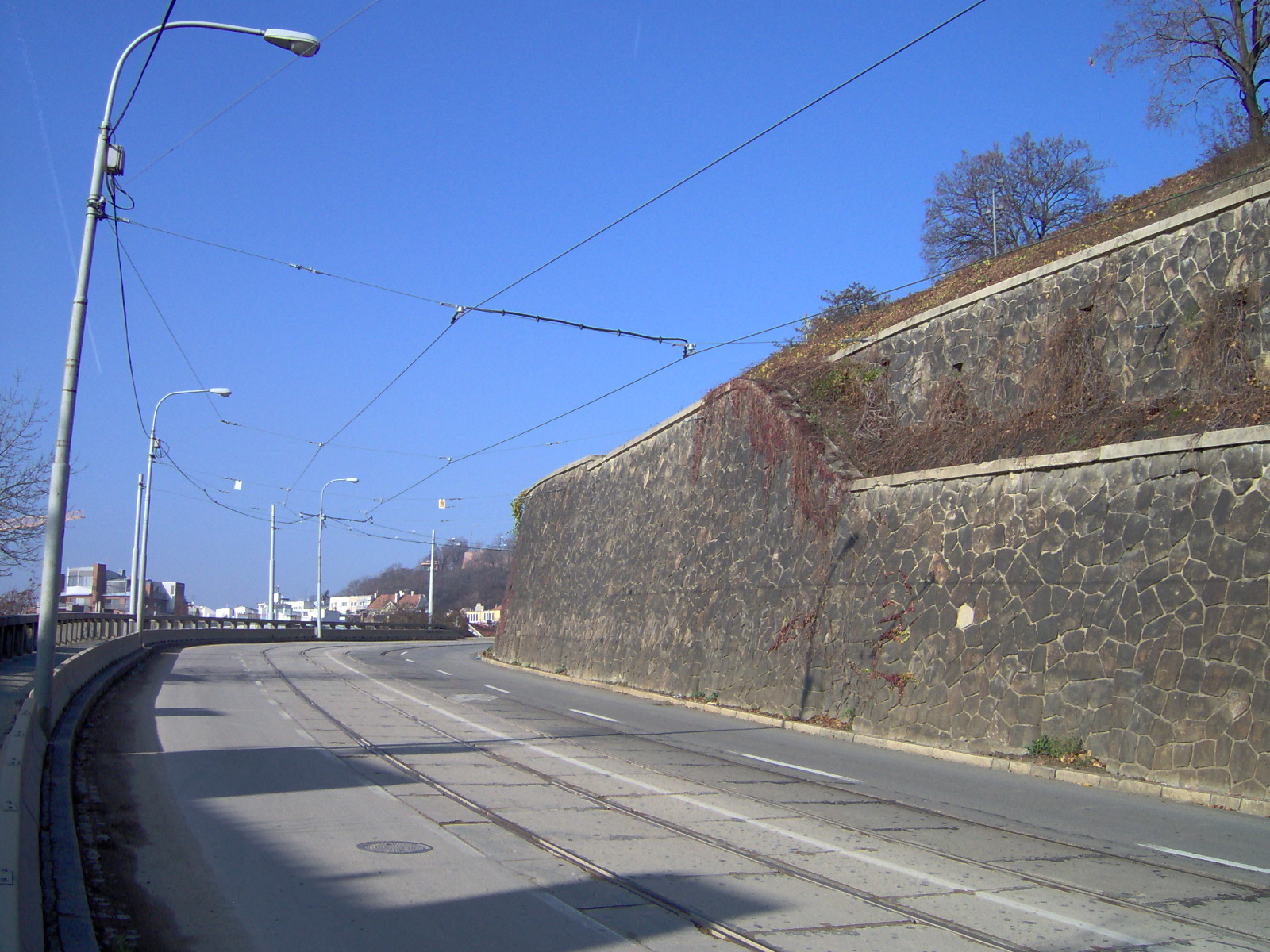 Tram track in Husova street, Brno, Czech Republic Česky: Tramvajová trať v Husově ulici, Brno